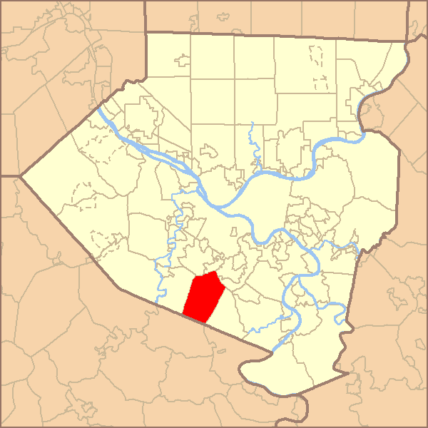 Map highlighting the municipality within Allegheny County, Pennsylvania.